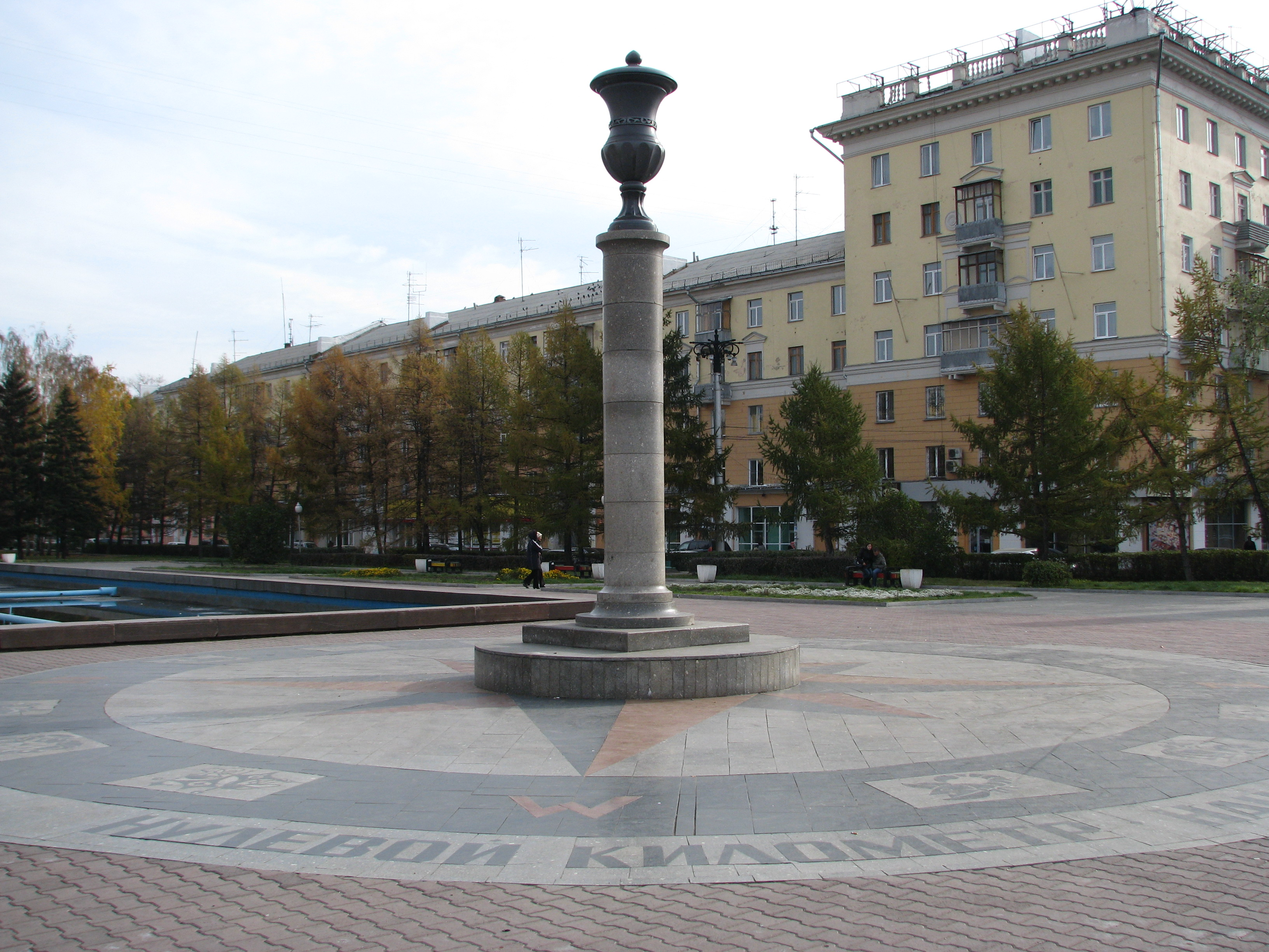 Kilometre Zero Barnaul